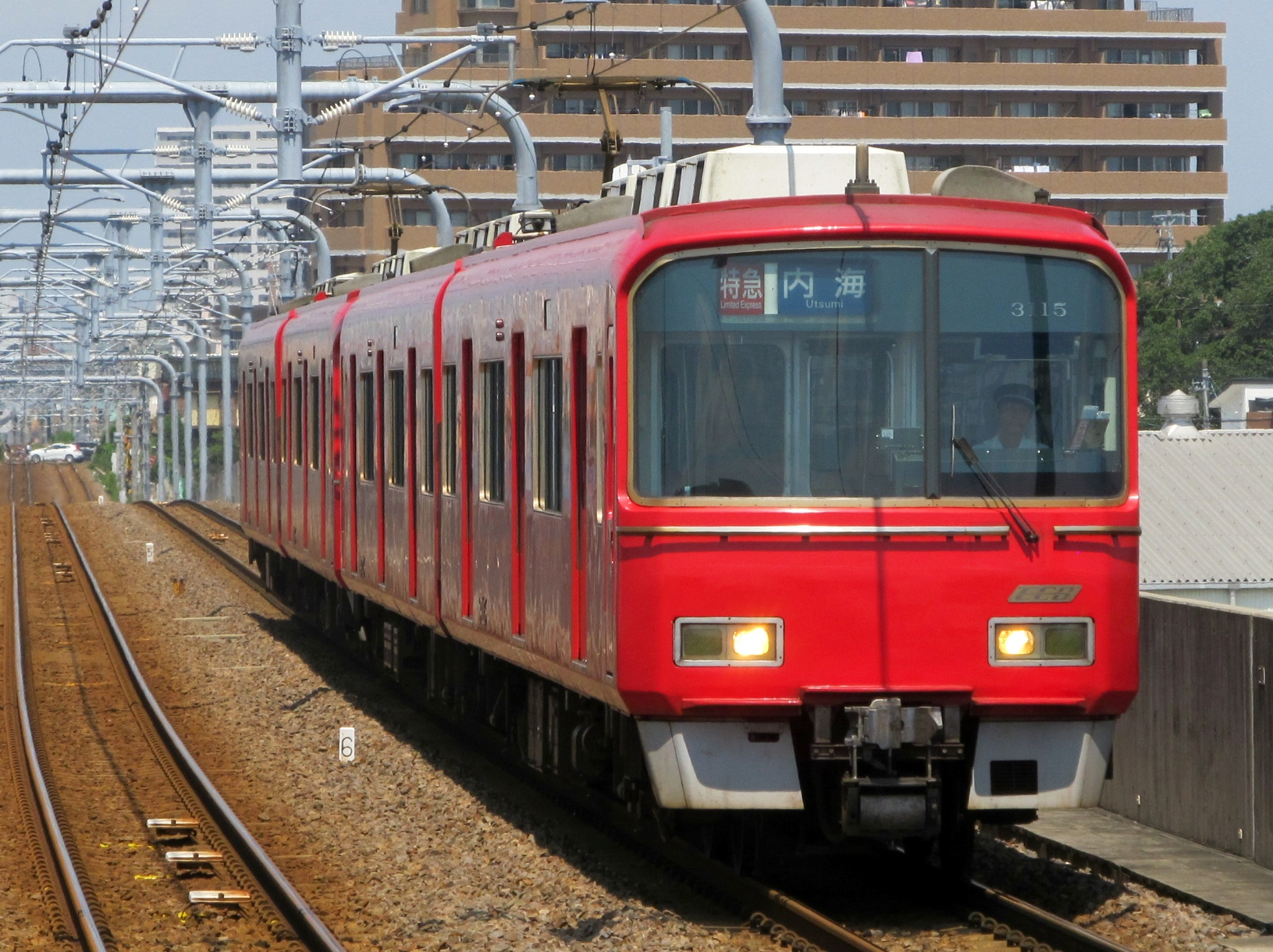 Meitetsu 3100 series and 3100 series. Limited Express bound for Utsumi.